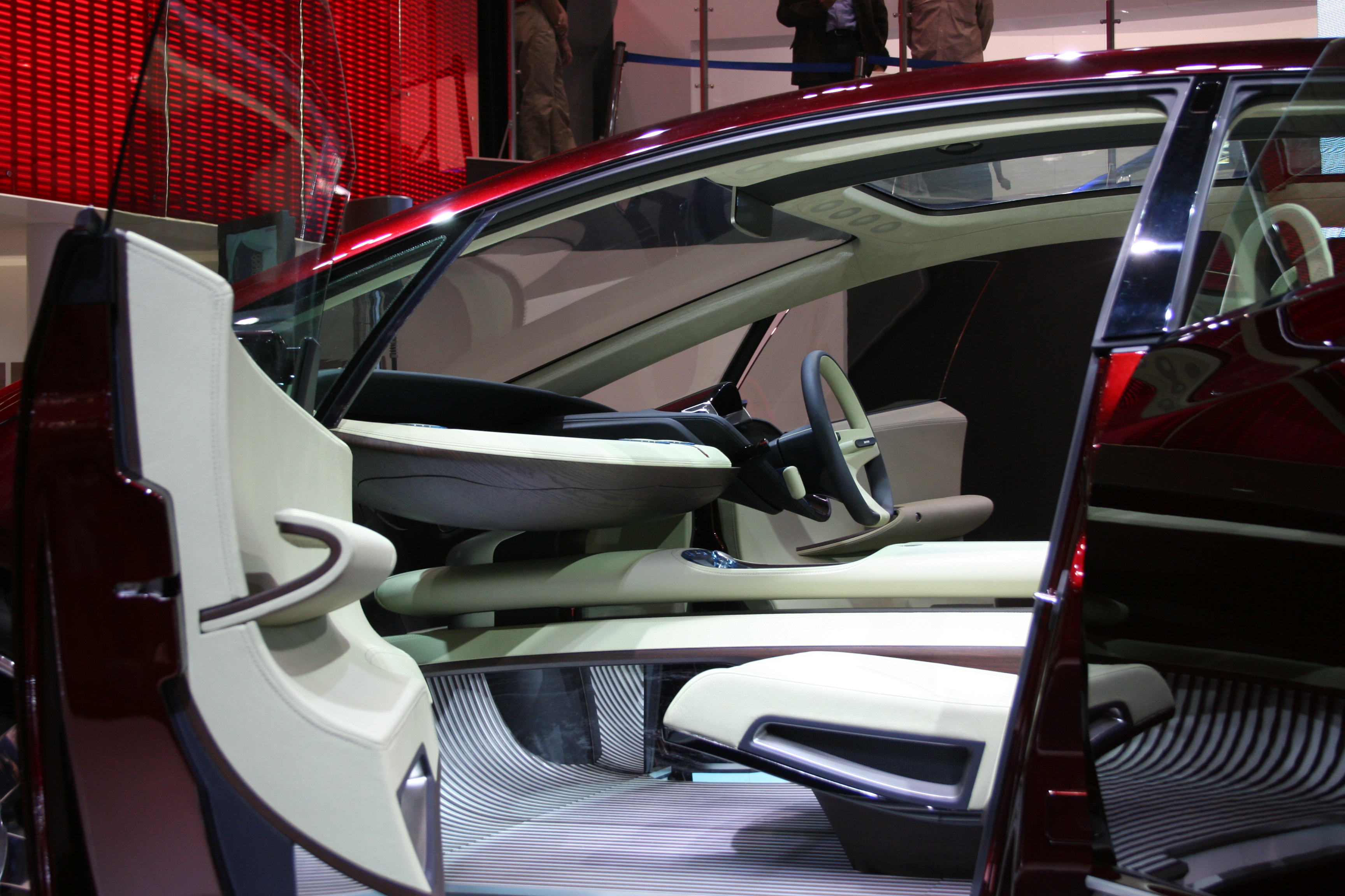 Honda FCX at the 2005 Tokyo Motor Show